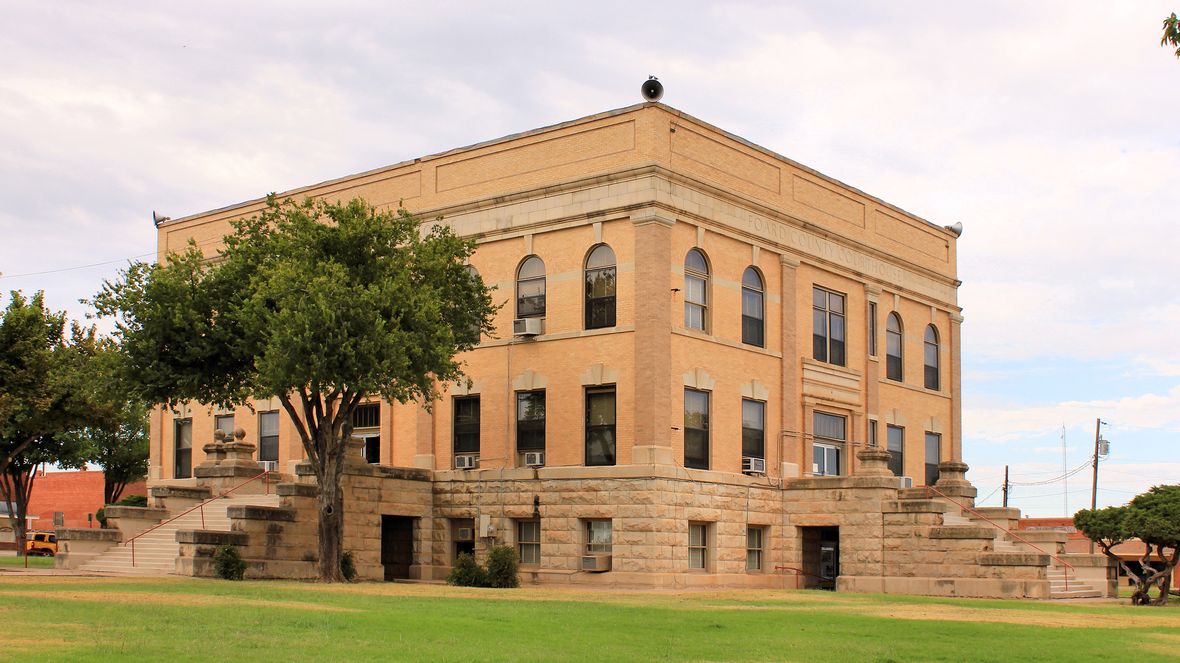 The Foard County, Texas Courthouse in Crowell, Texas United States. The courthouse was built in 1910 and designated a Recorded Texas Historic Landmark in 2001.